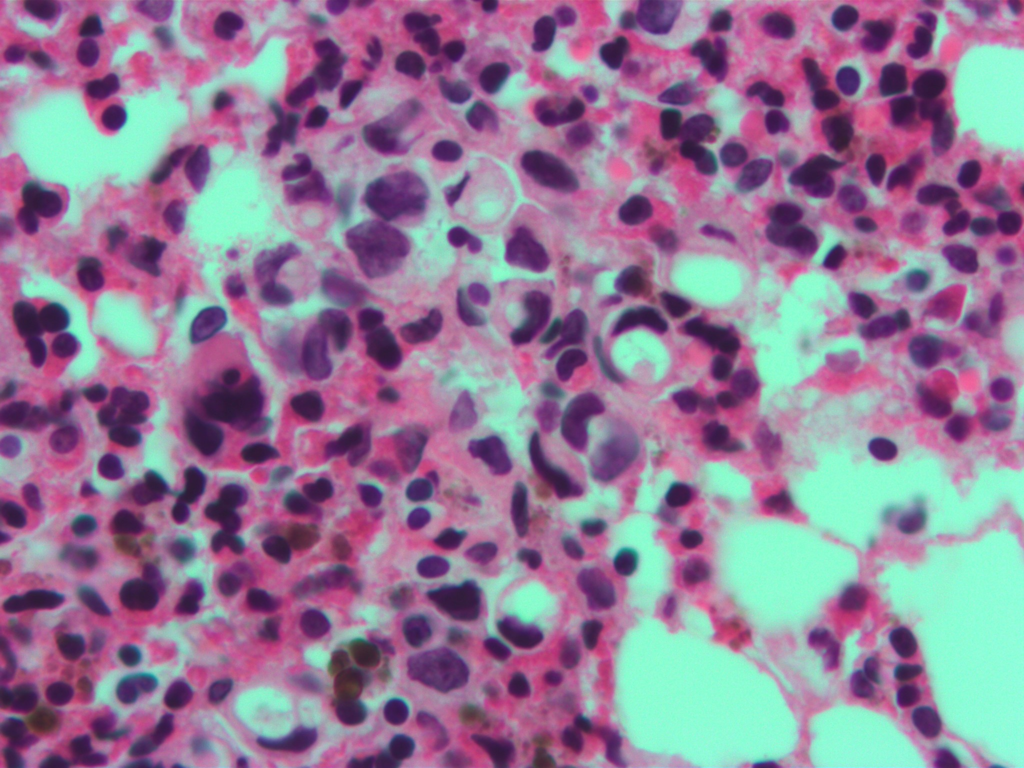 Micrograph of signet ring cells (arising from breast). H&E stain.